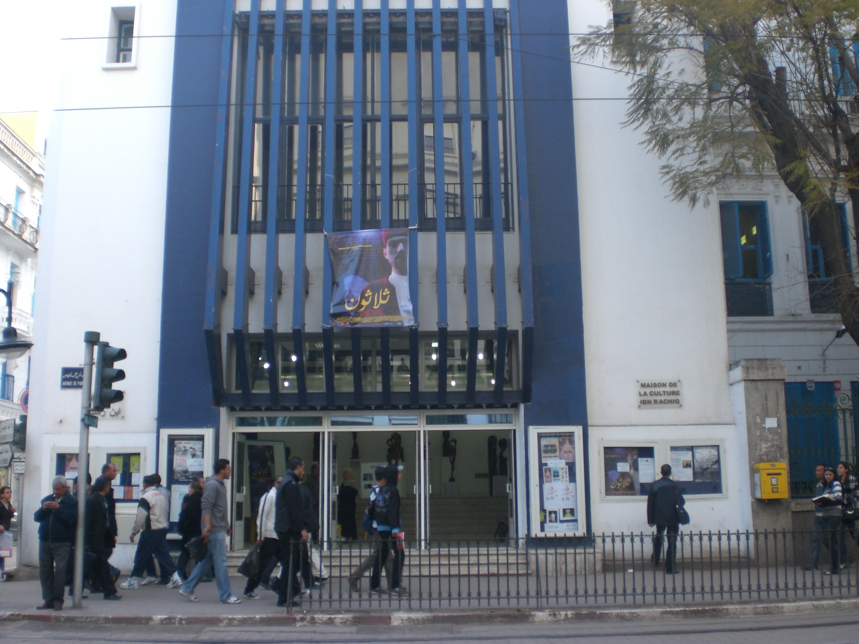 Ibn Rachiq is a Culture House-Tunis